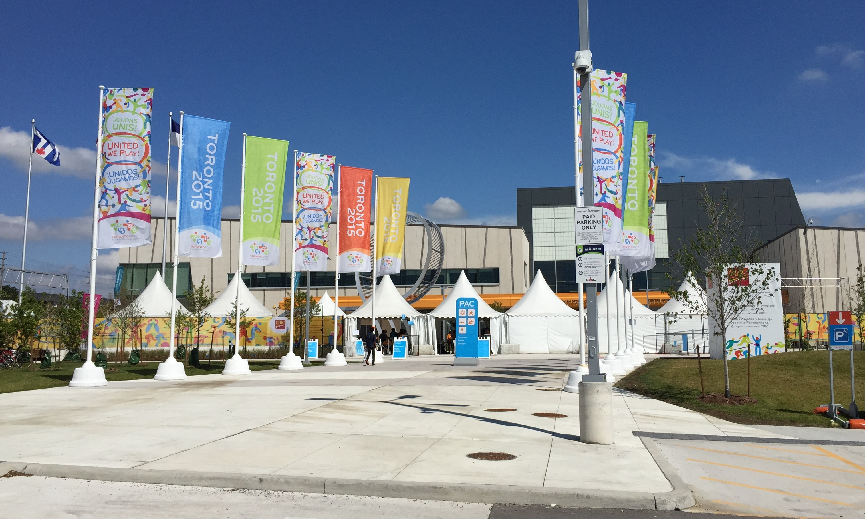 Toronto Pan Am Sports Centre main entrance during the Toronto 2015 Pan American Games